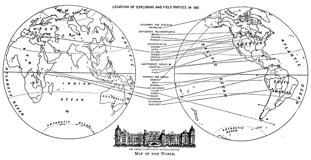 Locations of exploring and field parties in 1913, American Museum of Natural History map.